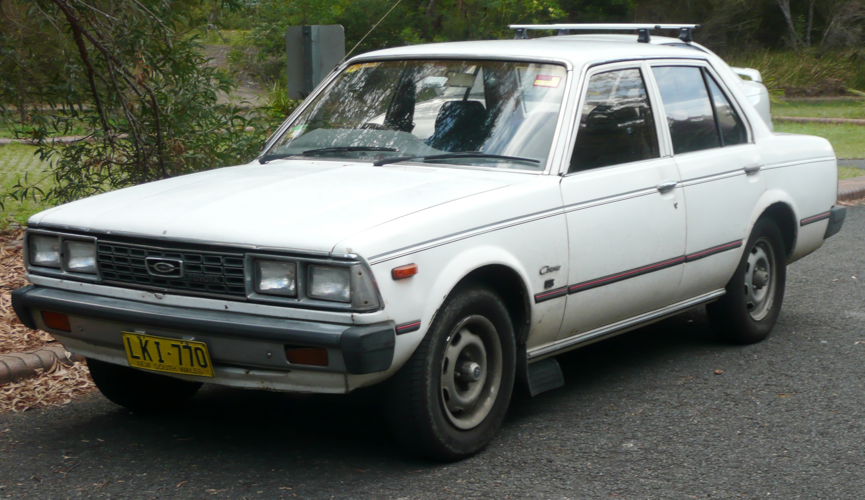 1981 Toyota Corona (XT130) CS sedan. Photographed in Audley, New South Wales, Australia.